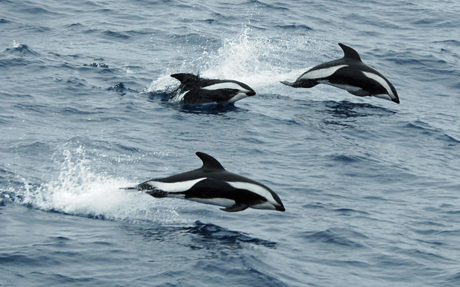 Hourglass Dolphins in Drake Passage. The original version has been edited by adjusting brightness and contrast and cropping.